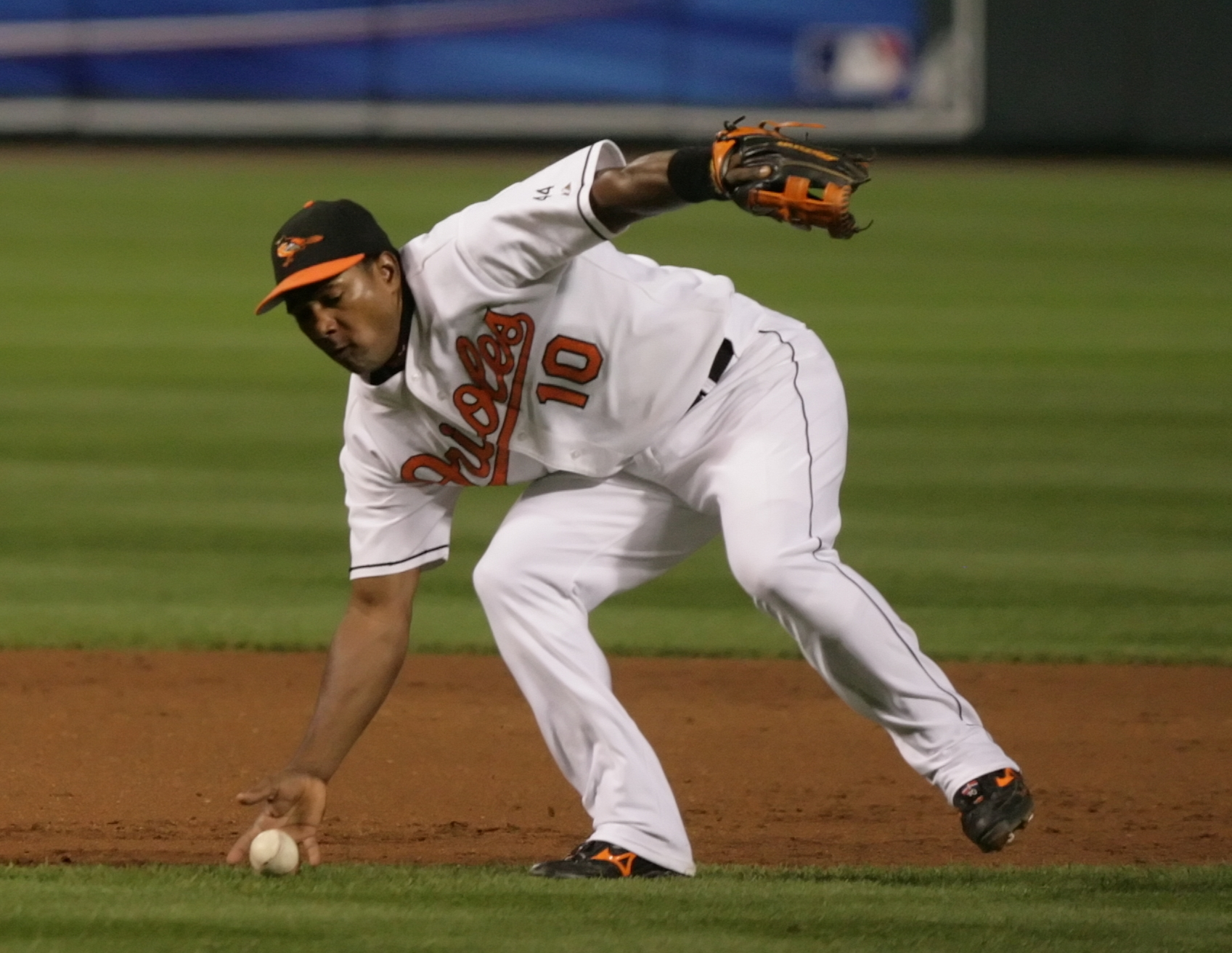 Miguel Tejada